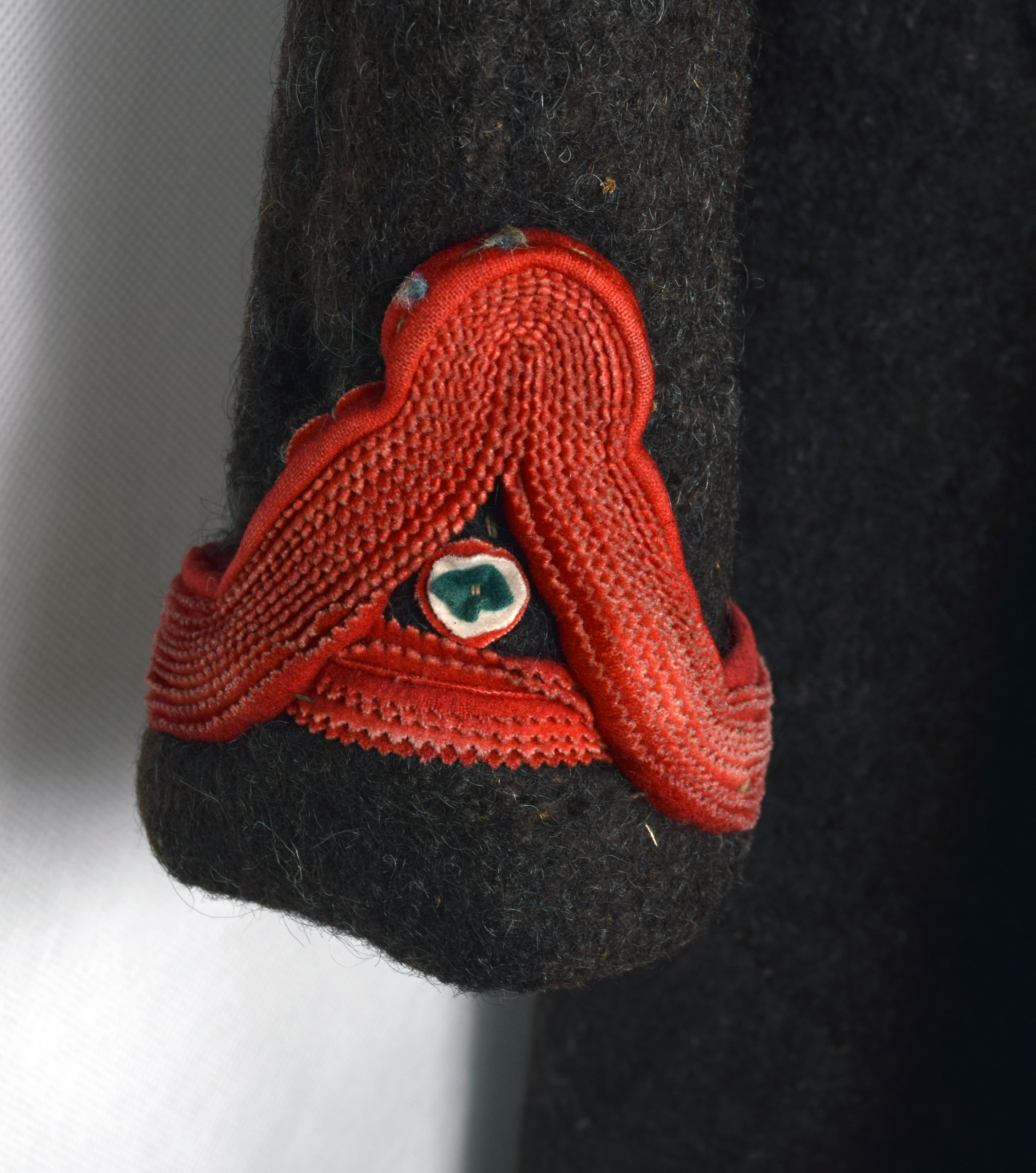 Cuha - a traditional man wear from Biały Dunajec made around 1910, a property of Muzeum Tatrzańskie in Zakopane, Poland. Inv. no: E/287/MT, purchased from Andrzej Recha from Rydułtowy in 1935.